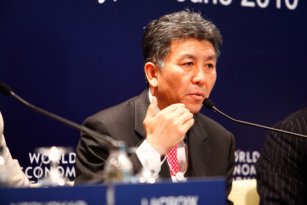 Liu Jiren, Chairman and Chief Executive Officer, Neusoft Corporation, People's Republic of China; Global Agenda Council on Emerging Multinationals captured during the World Economic Forum on East Asia in Ho Chi Minch City, Vietnam, June 7, 2010.